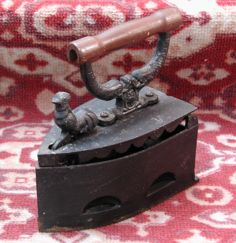 Charcoal iron (old technology: XIXth or beginning of XXth century). Picture taken by RobbyBer, uploaded first to German Wikipedia.